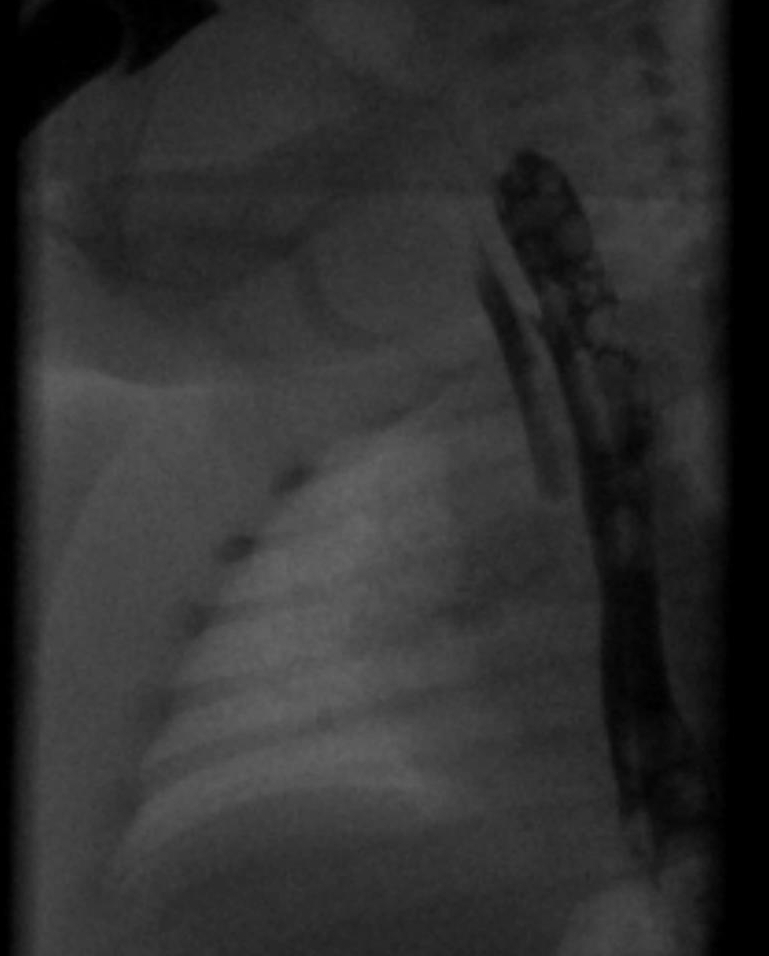 X-Ray document showing tracheoesophageal fistula in a newborn